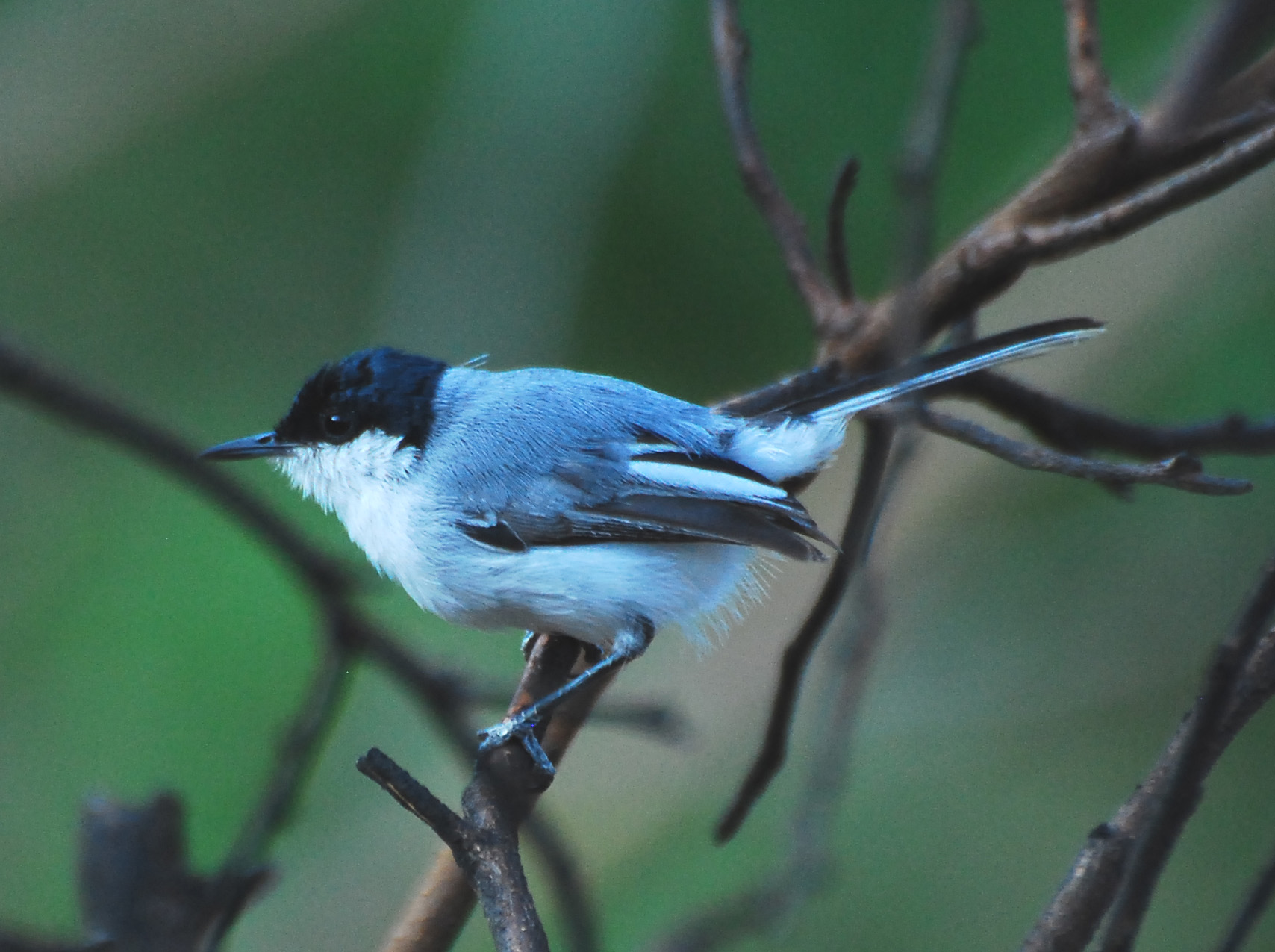 White-lored Gnatcatcher at a refuge NE of Tehuantepec, 080331. Polyoptila albiloris.